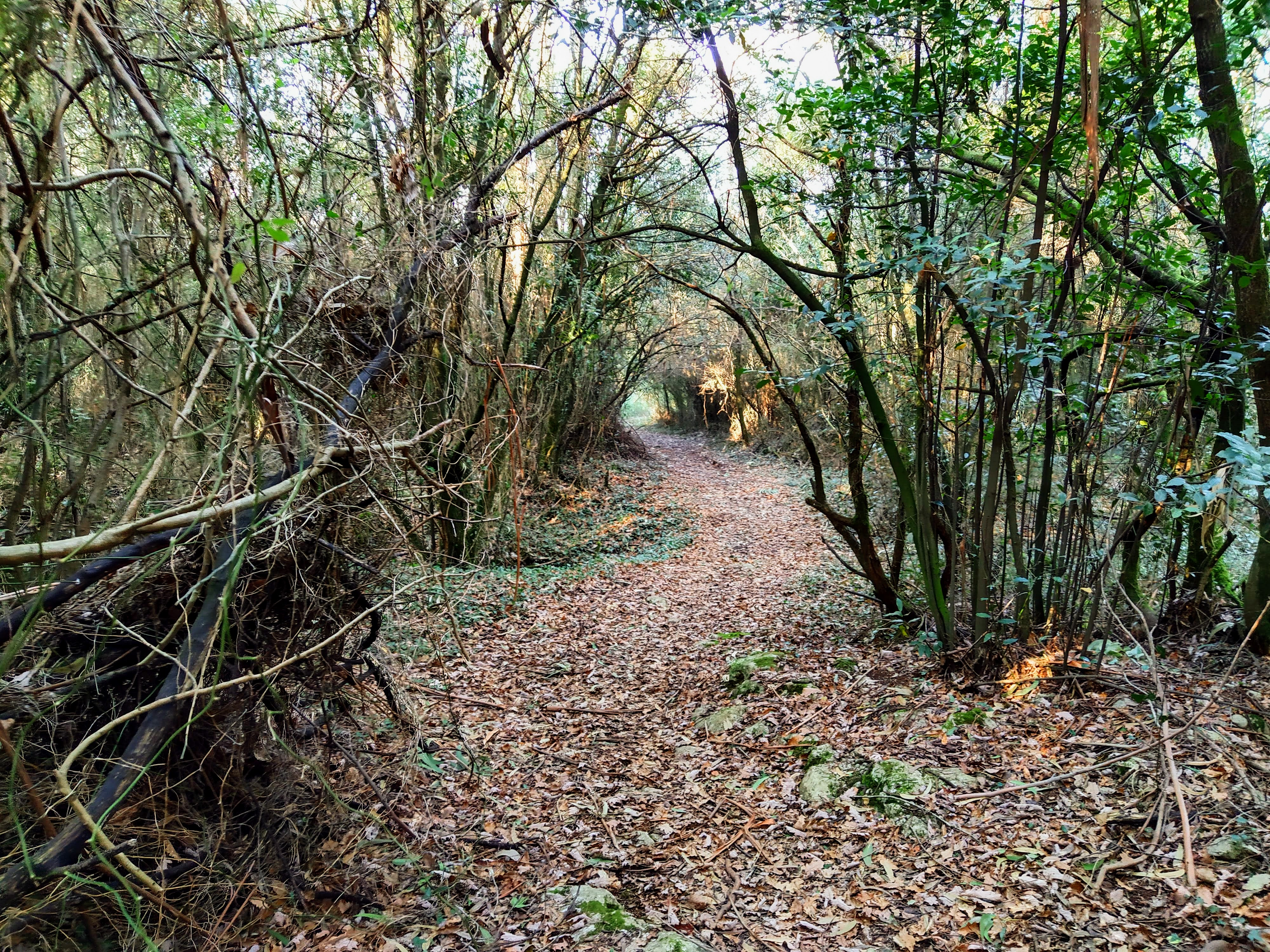 A path that links the towns of Santa Marina and El Bosque (Cantabria, Spain ) through a low forest of coastal holm oak on the limestone lithosols.